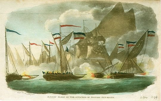 Speedy sloop of War Attacked by Spanish Gun-Boats: an engraving (234mm x 147mm) created on 6 Nov 1799 and published by Bunney & Gold on 1 July 1801.